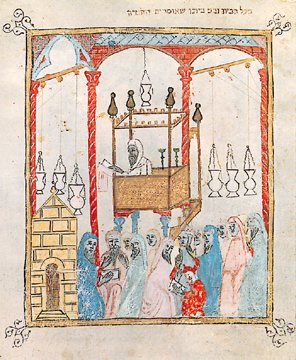 Full-page miniature from the Sister Haggadah, Barcelona, Spain 1350.